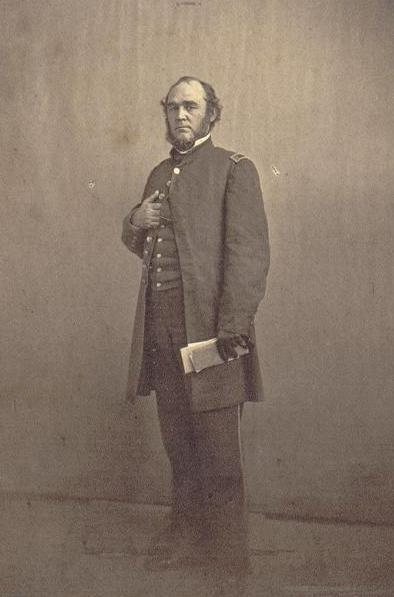 Quartermaster General Montgomery C. Meigs of U.S. Army General Staff in uniform, holding papers.